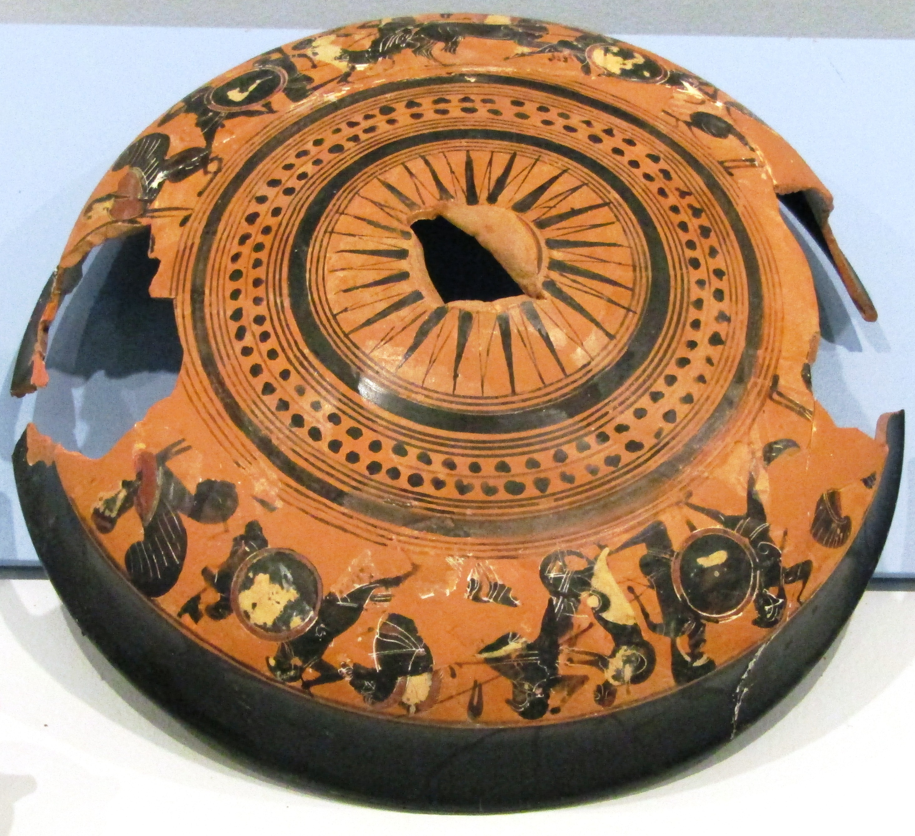 Archaic kilix